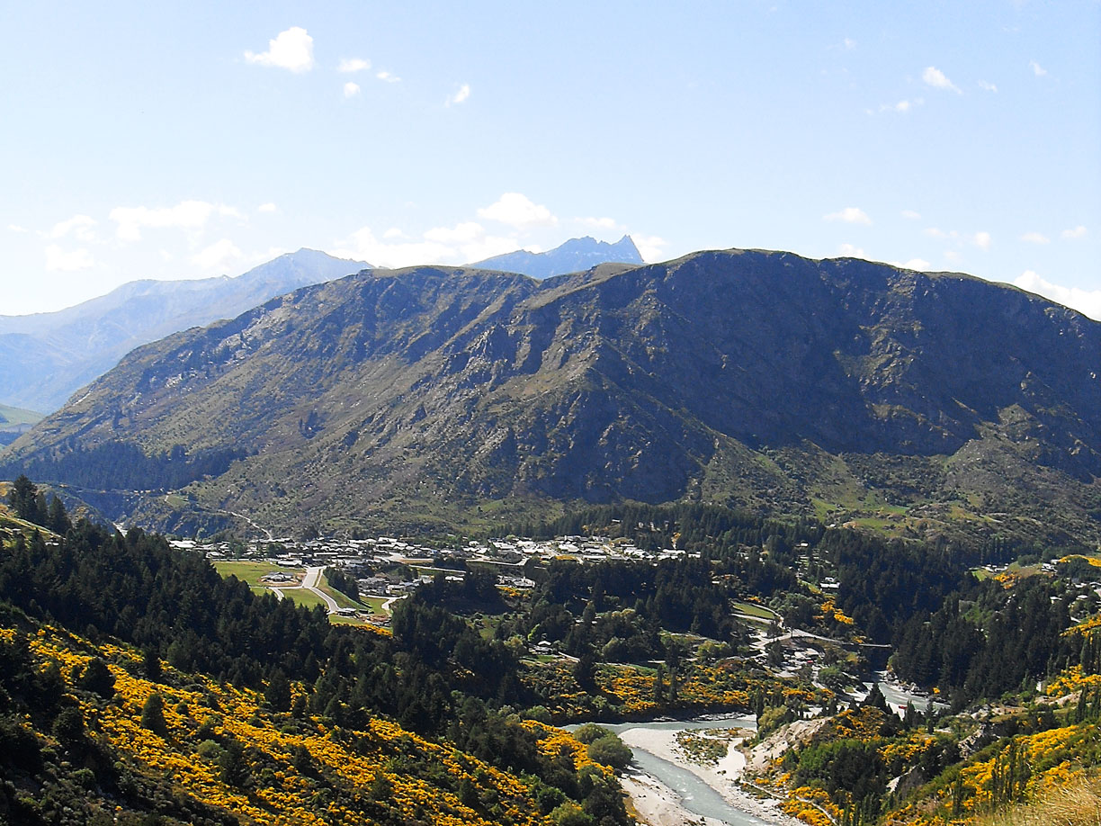 Queenstown Hill and the suburb of Arthurs Point as viewed from Moonlight Track